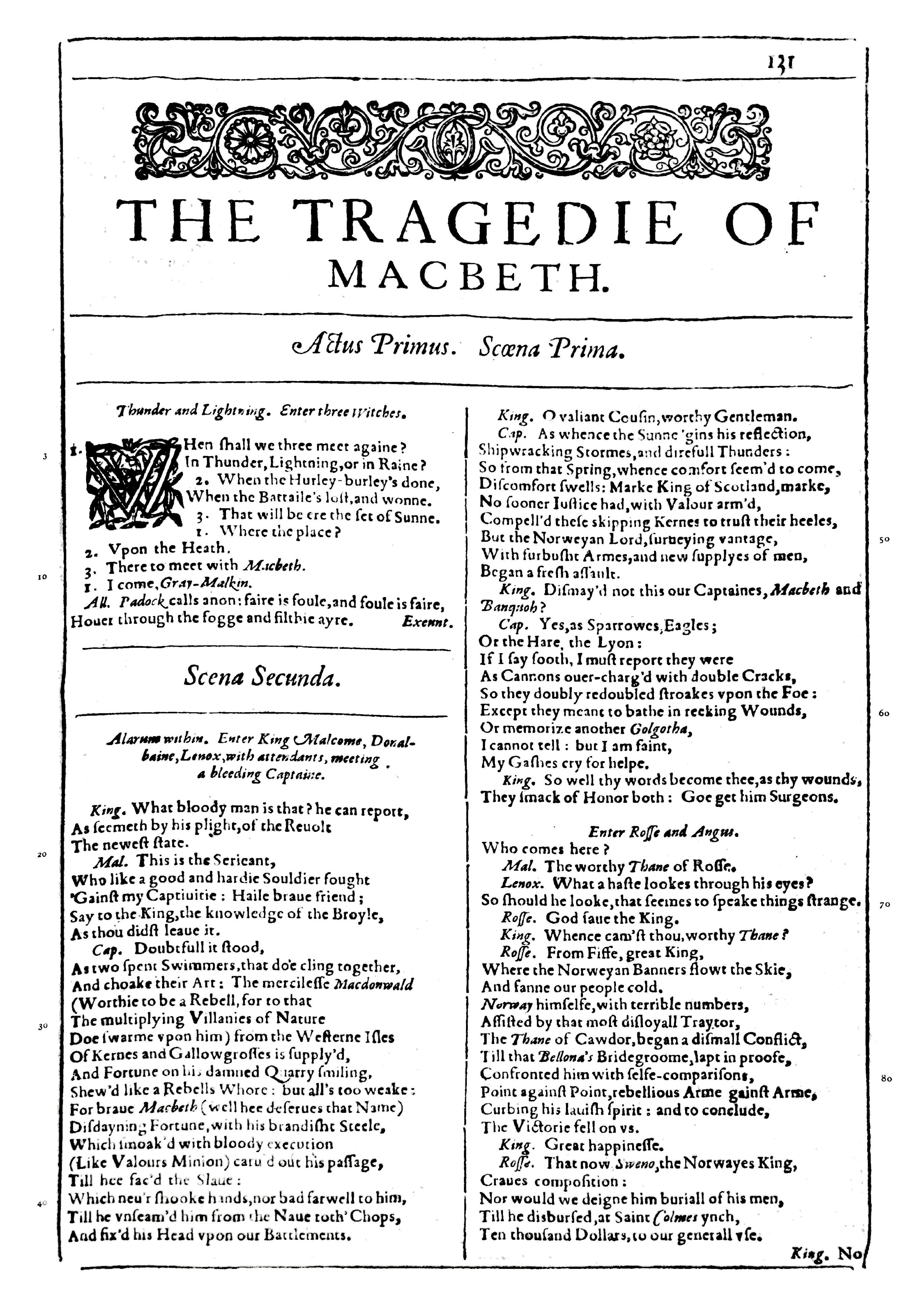 Photo of the first page of Macbeth from a facsimile edition of the First Folio of Shakespeare's plays, published in 1623